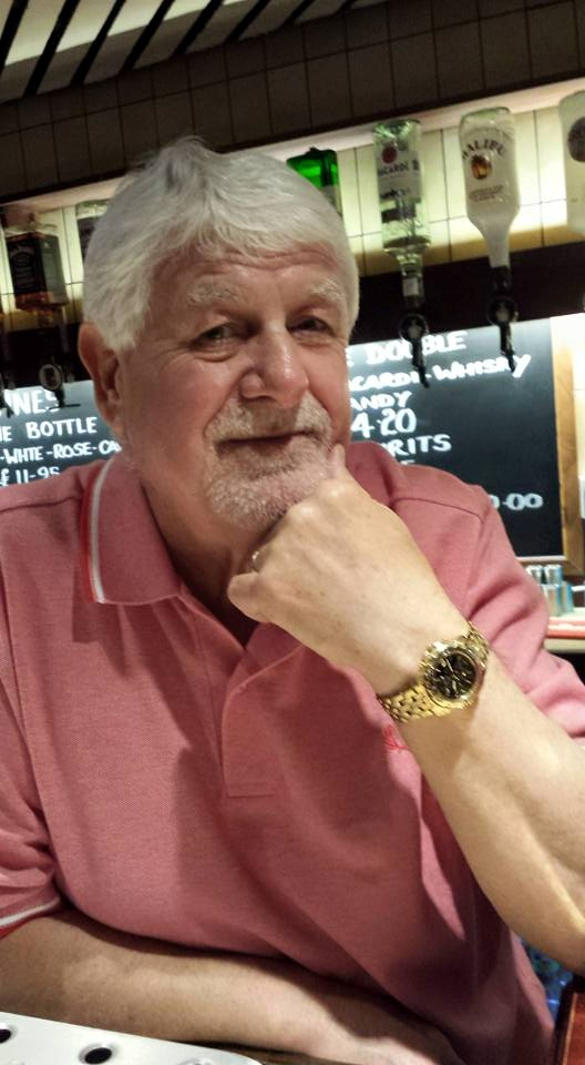 Retired Aldershot F.C. footballer Joe Jopling photographed behind the bar of his pub, the Golden Lion in Aldershot